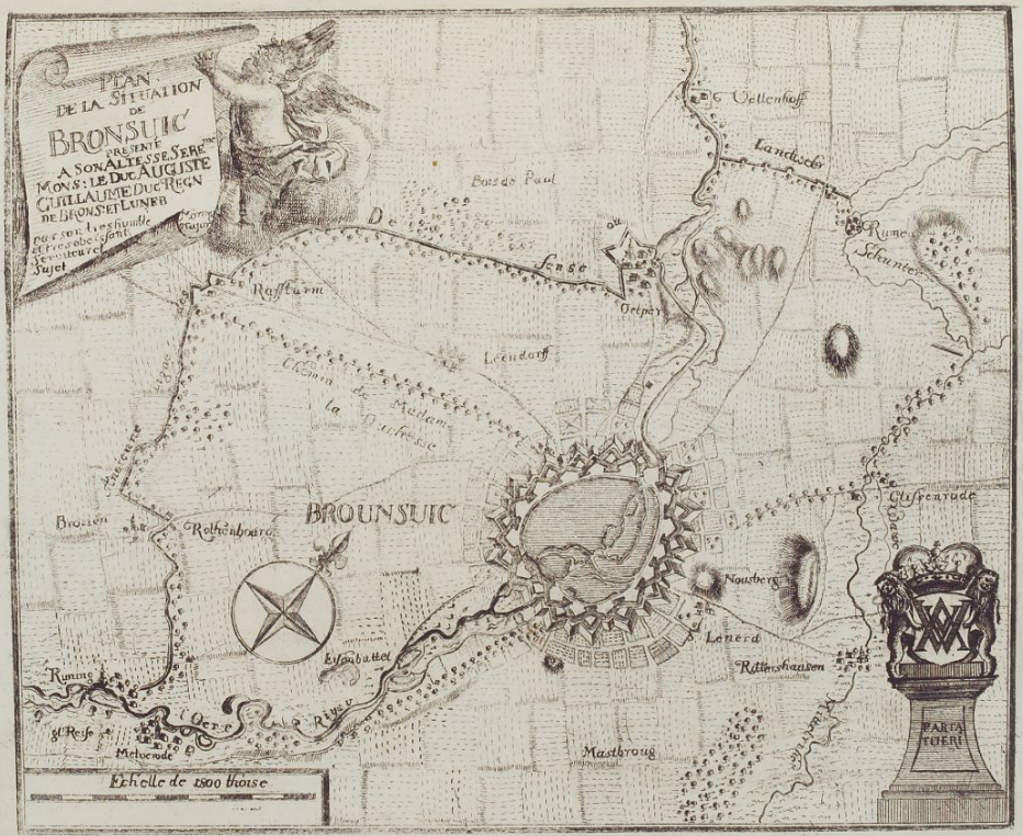 City map of Brunswick, Germany, 1714-1750.